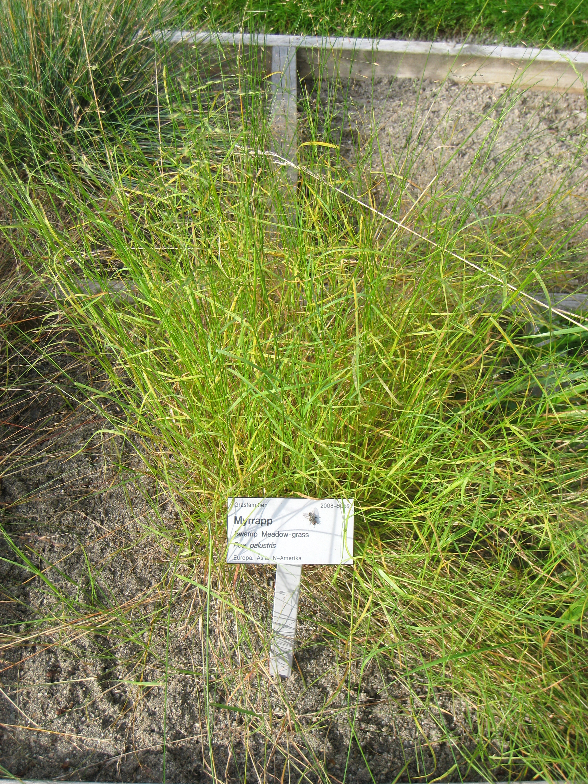 Poa palustris - Oslo botanical garden, Oslo, Norway.